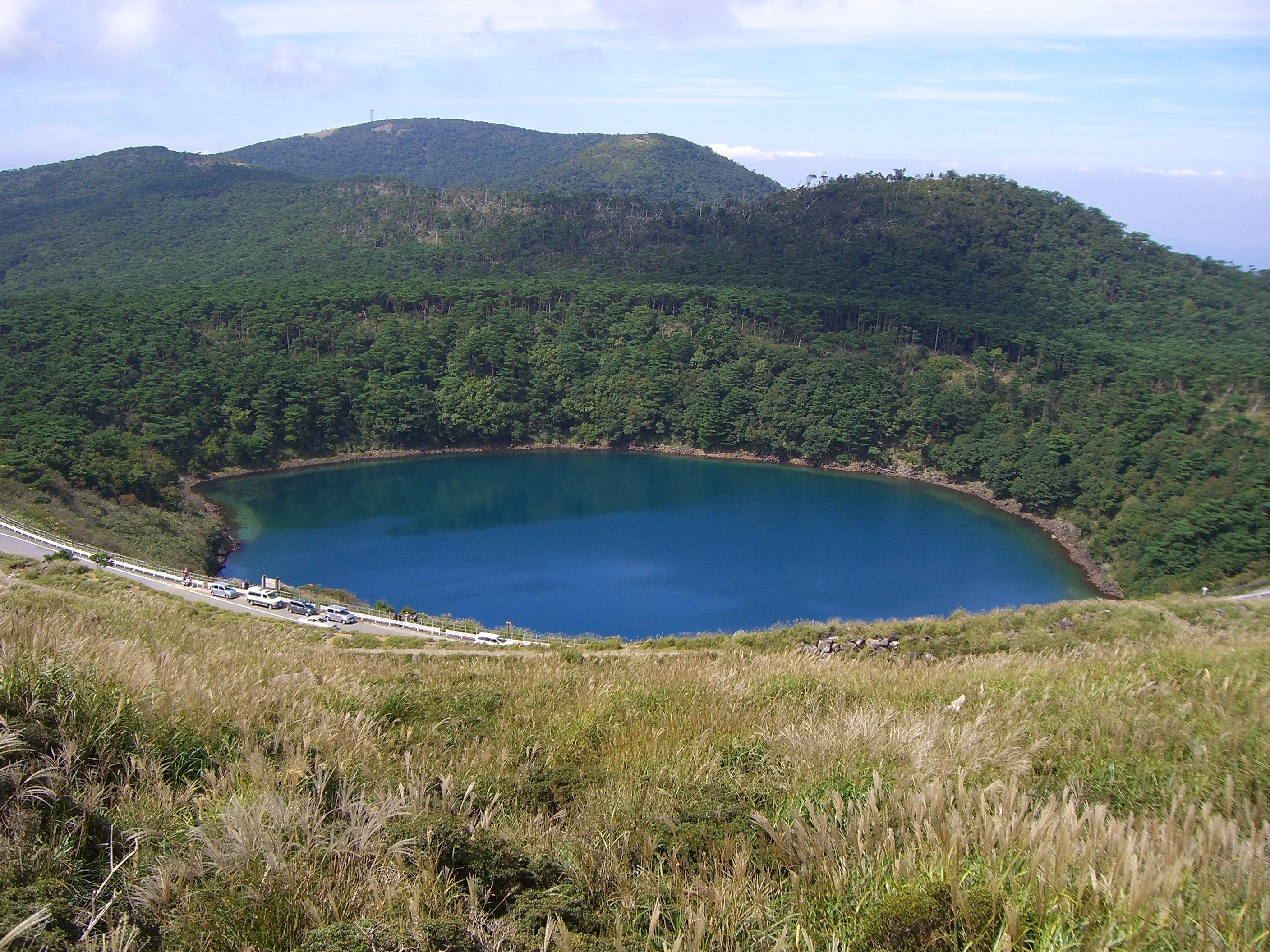 Lake Fudōike in Miyazaki, Japan.